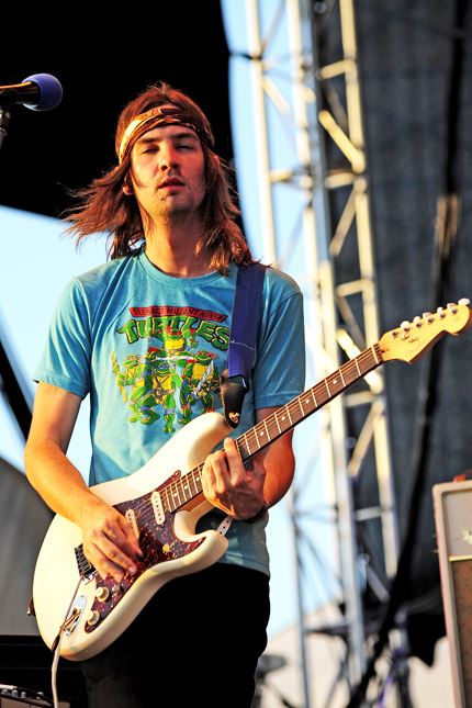 Southbound Festival 2011